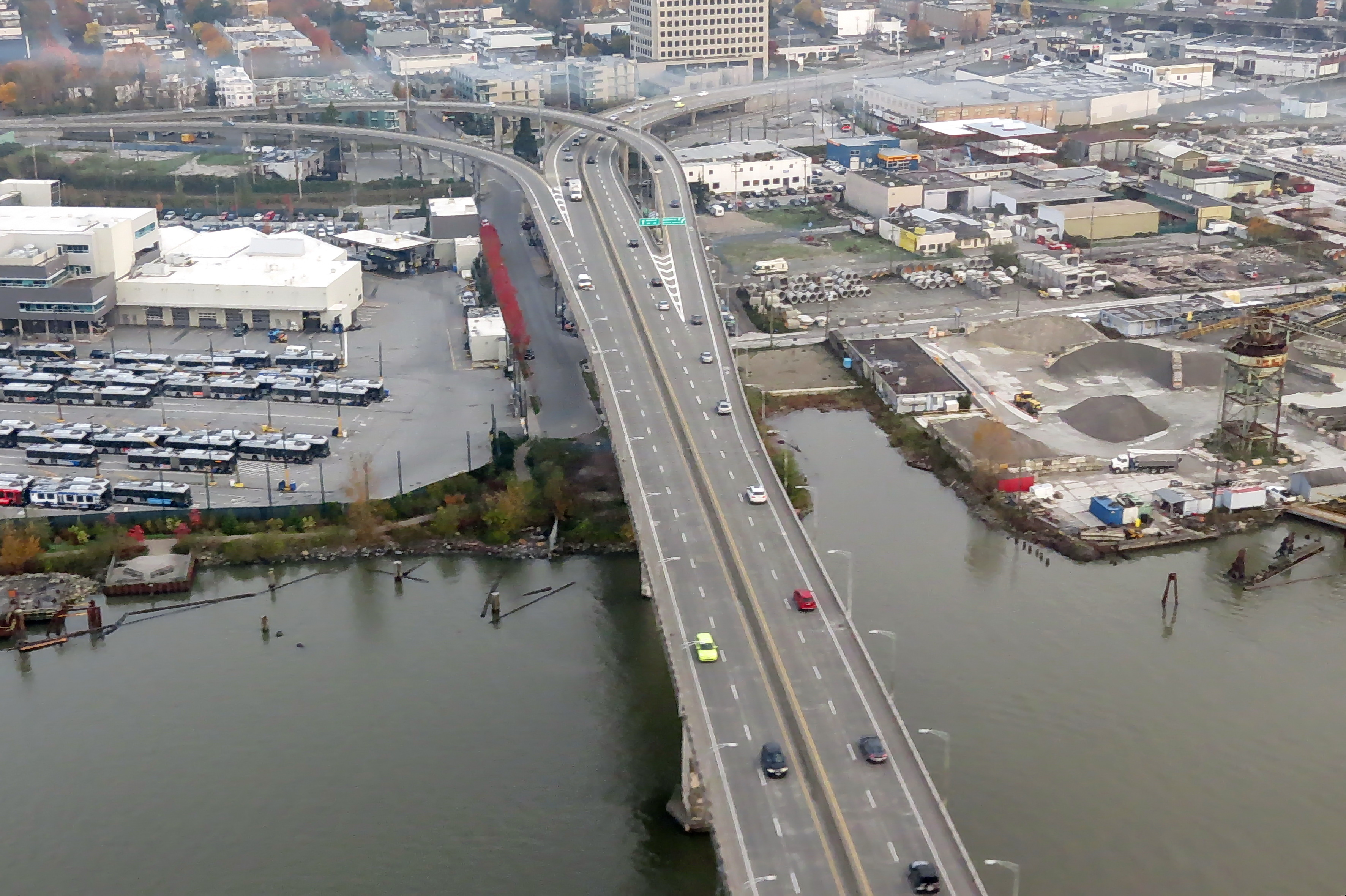 Arther Lang Bridge and Fraser River, Vancouver, British Columbia, Canada